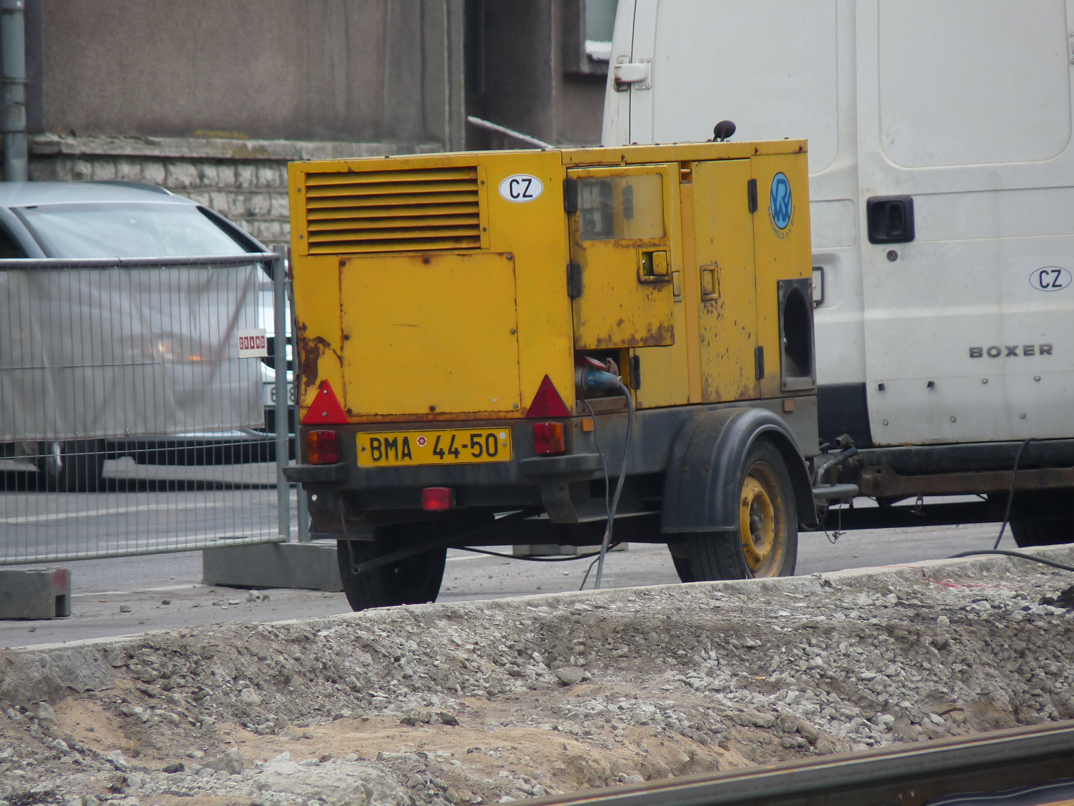 Welding station in Tallinn, Estonia